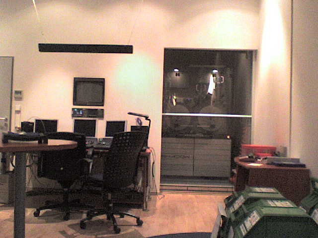 Telecine site